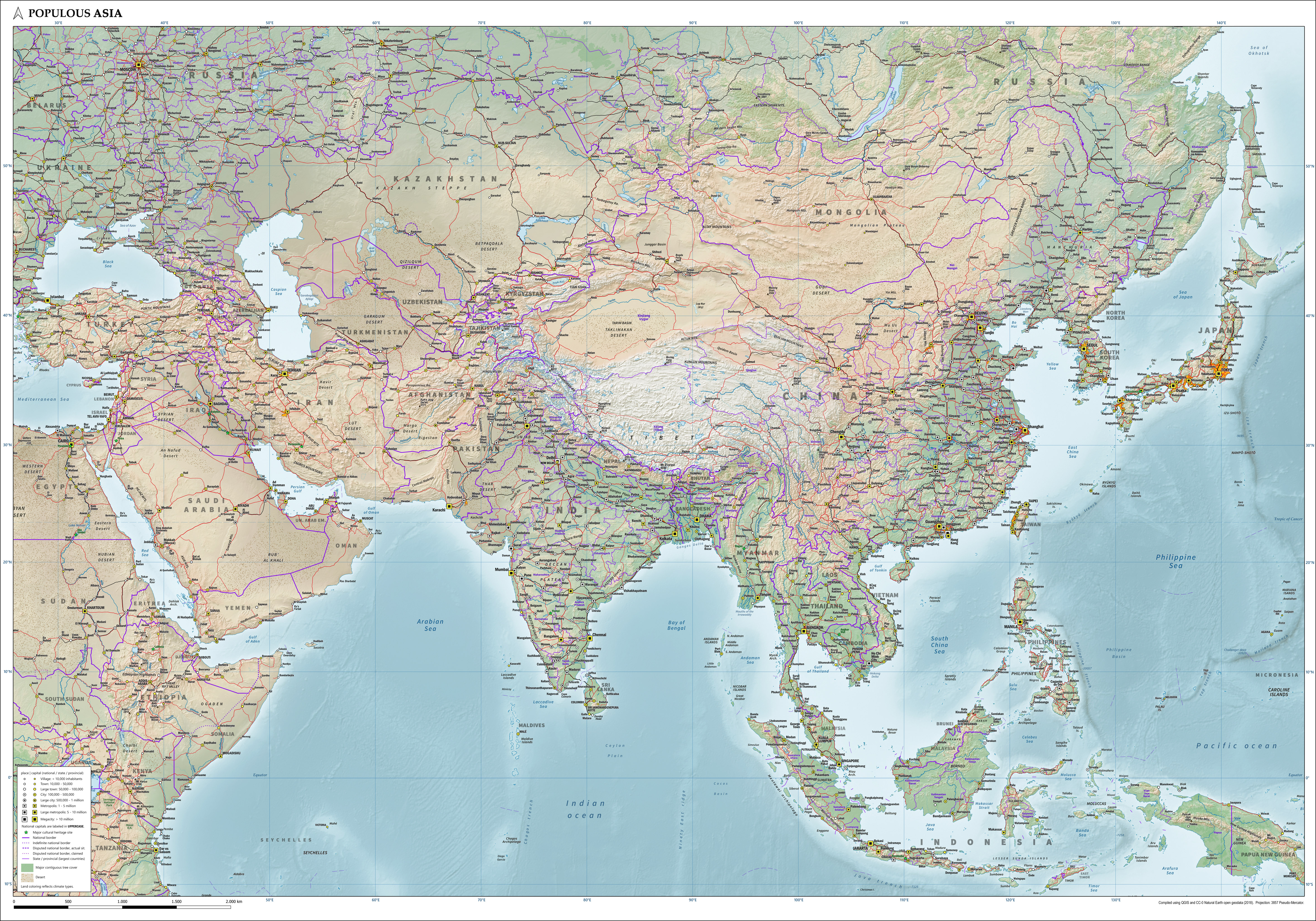 Map of the most populous part of Asia showing a combination of physical, political and population characteristics, in Pseudo-Mercator projection, with legend, as per 2018. Compiled using QGIS and CC-0 Natural Earth geodata.